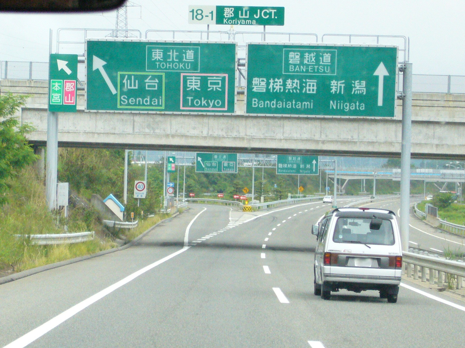 Koriyama Junction on the Ban-etsu Expressway eastbound line for Niigata in Koriyama City, Japan